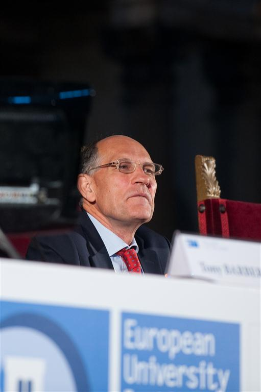 SoU2013 - The State of the Union 2013